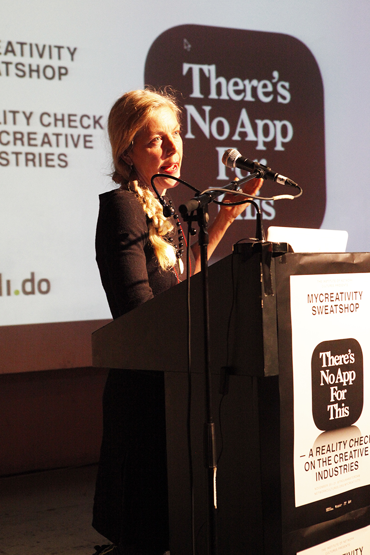 MyCreativity Sweatshop Symposium, 20th November 2014, Amsterdam